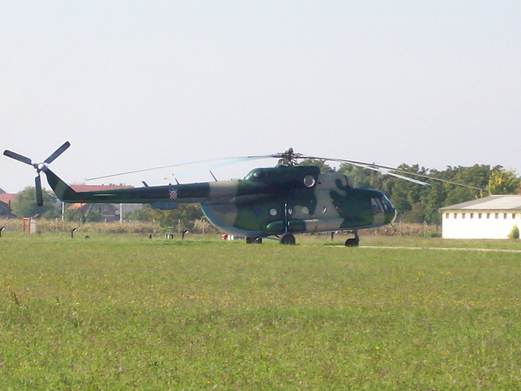 Helicopter Mi-8 Croatian airforce on Lucko Airbase